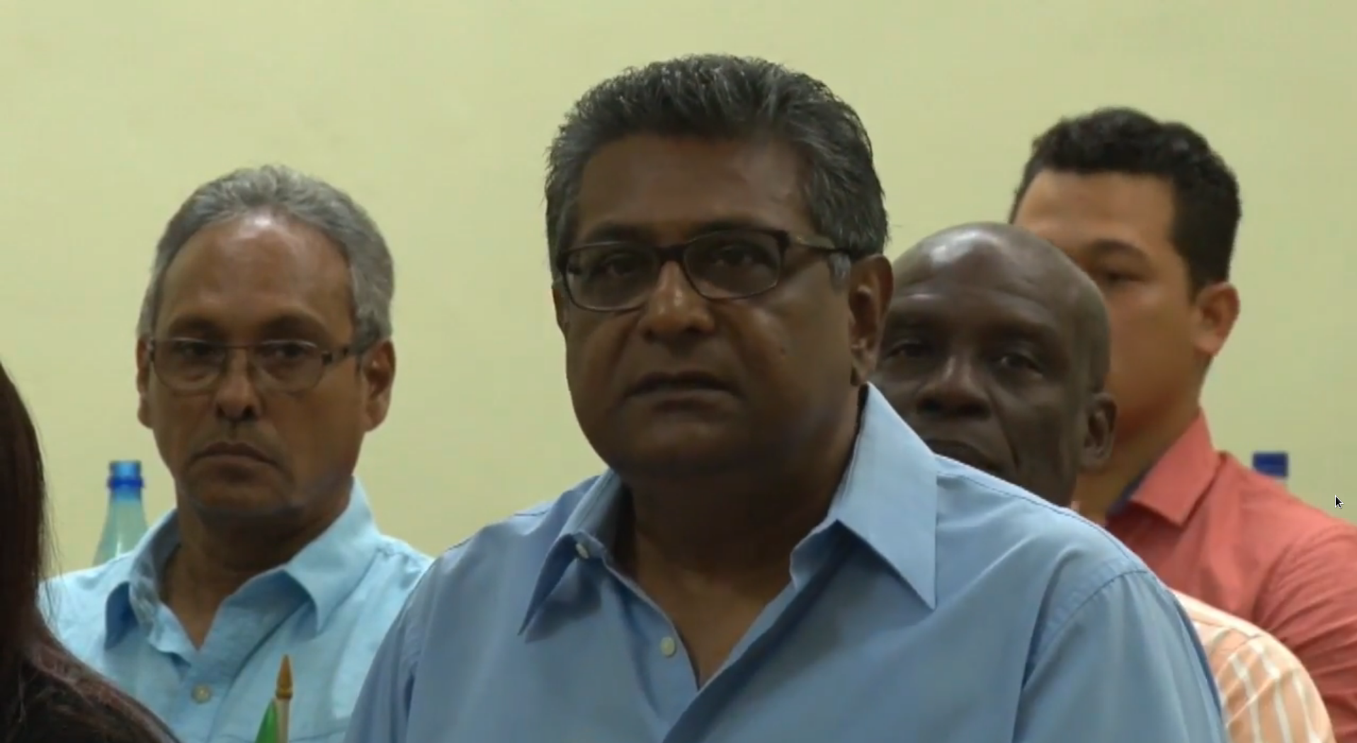 Stanley Raghoebarsing, former Surinamese government minister